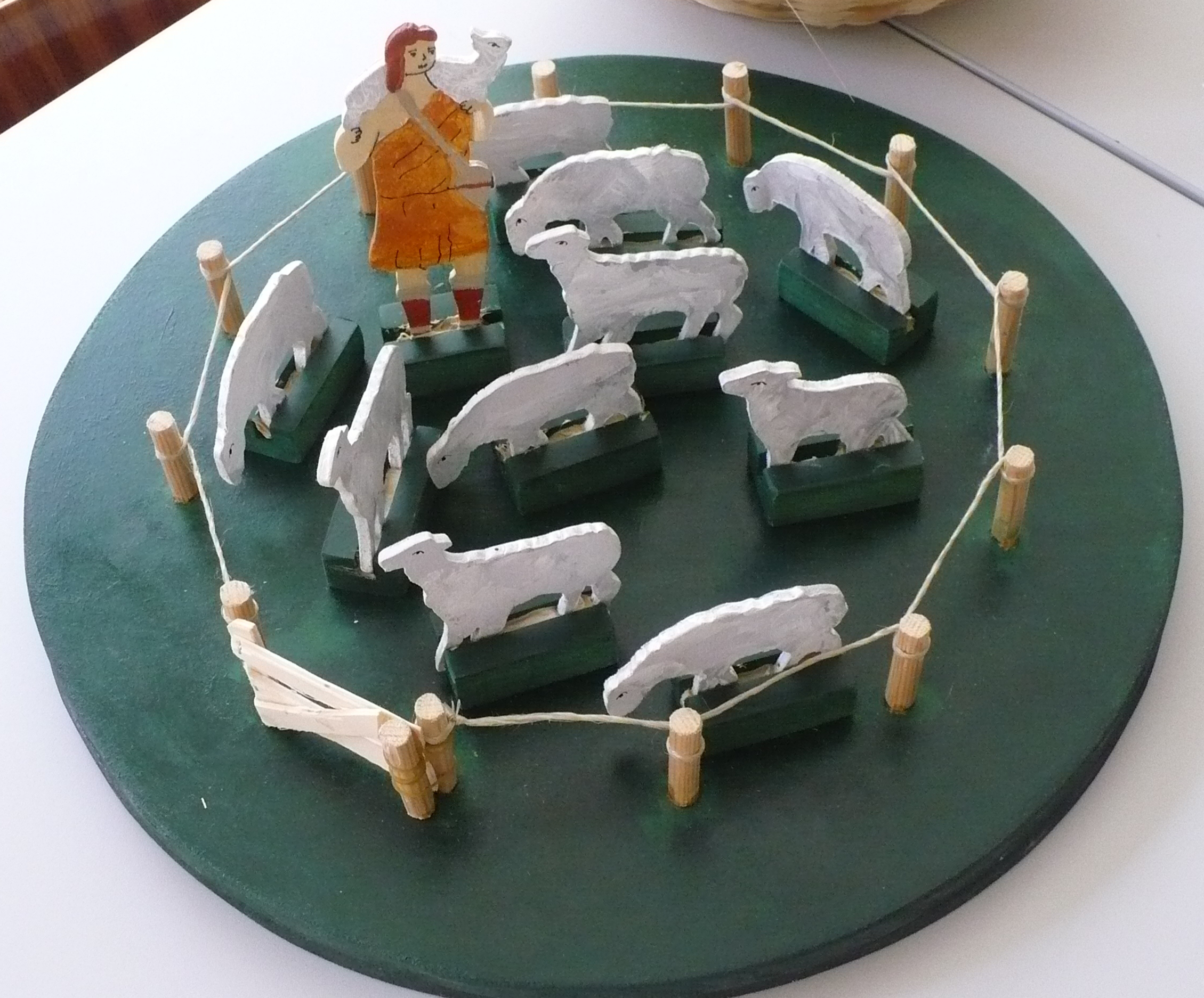 Woorden material to present the parabel of the Good Shepherd and his sheep